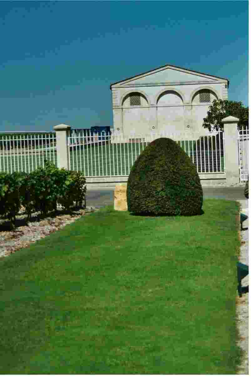 Château Mouton-Rothschild in Pauillac